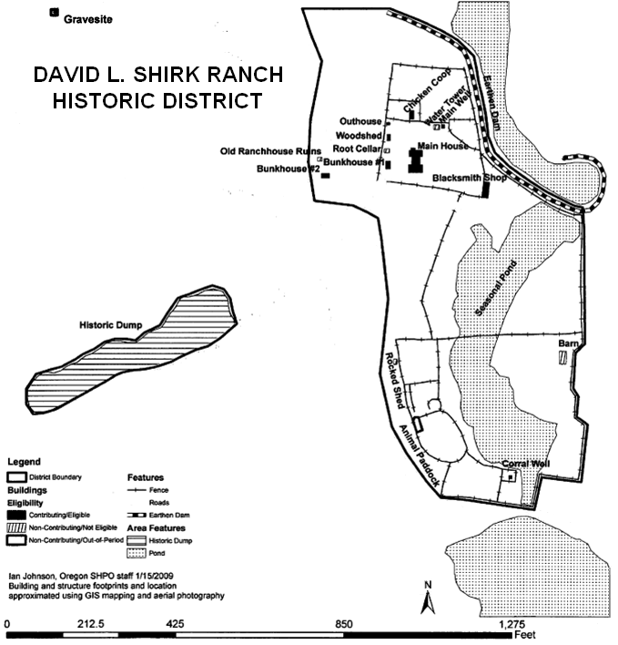 Site map of the David L. Shirk Historic District in Lake County, Oregon